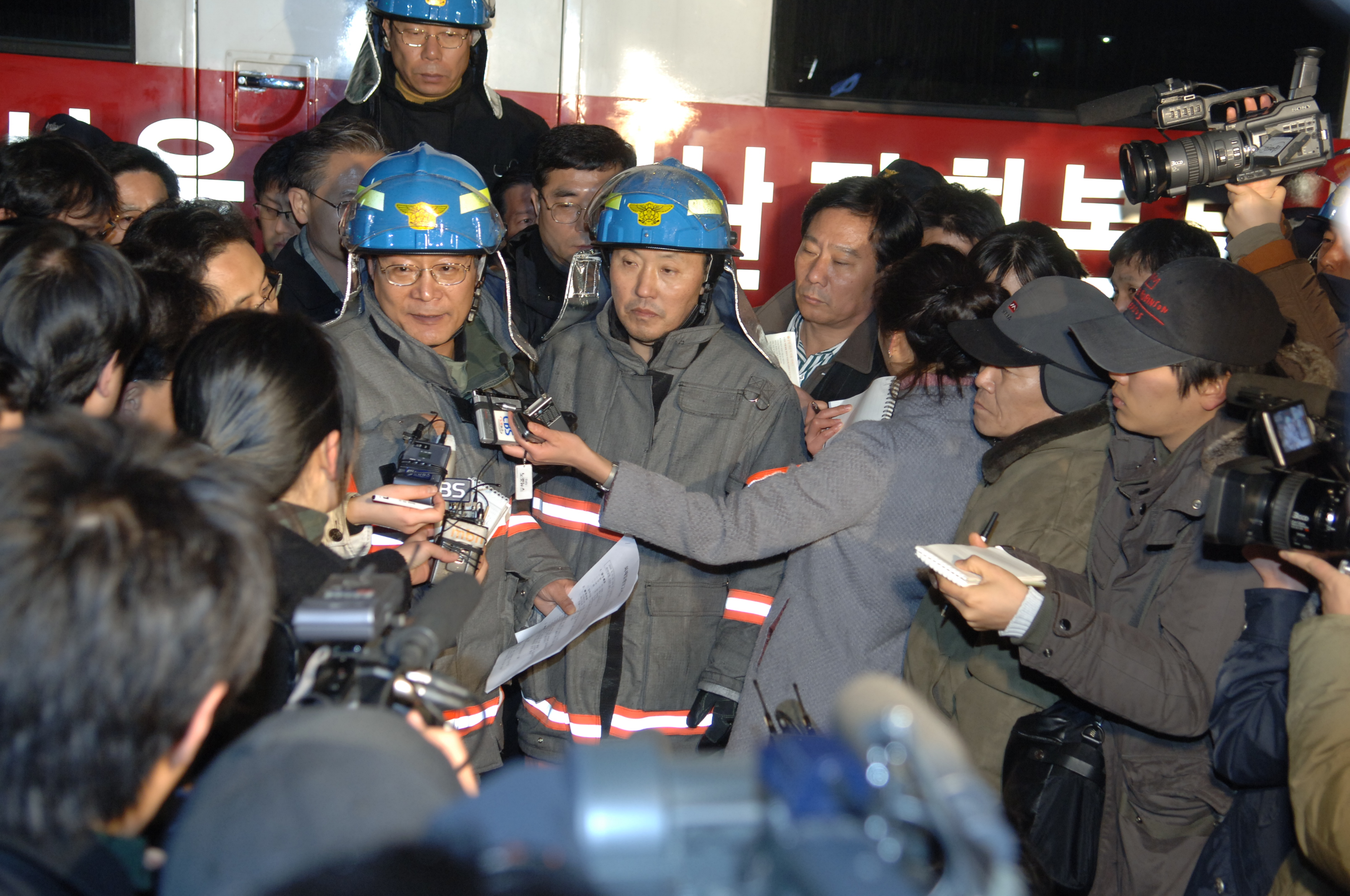 숭례문 방화사건현장에서 정정기, 문성준 등이 언론 브리핑을 하고 있다.